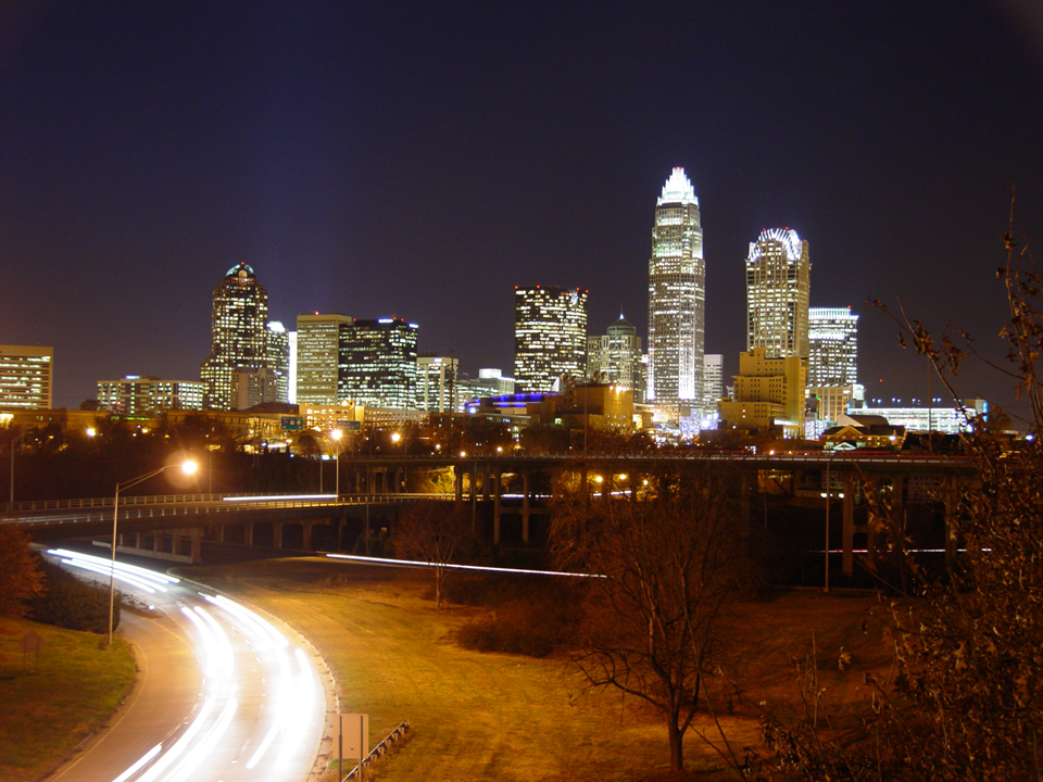 i shot it Category:Images of North Carolina